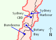 Map of the progress of the en:1999 Sydney hailstorm in its' central phase. For entire map, see Image:1999SydHail Map.PNG. CC3.0 license.